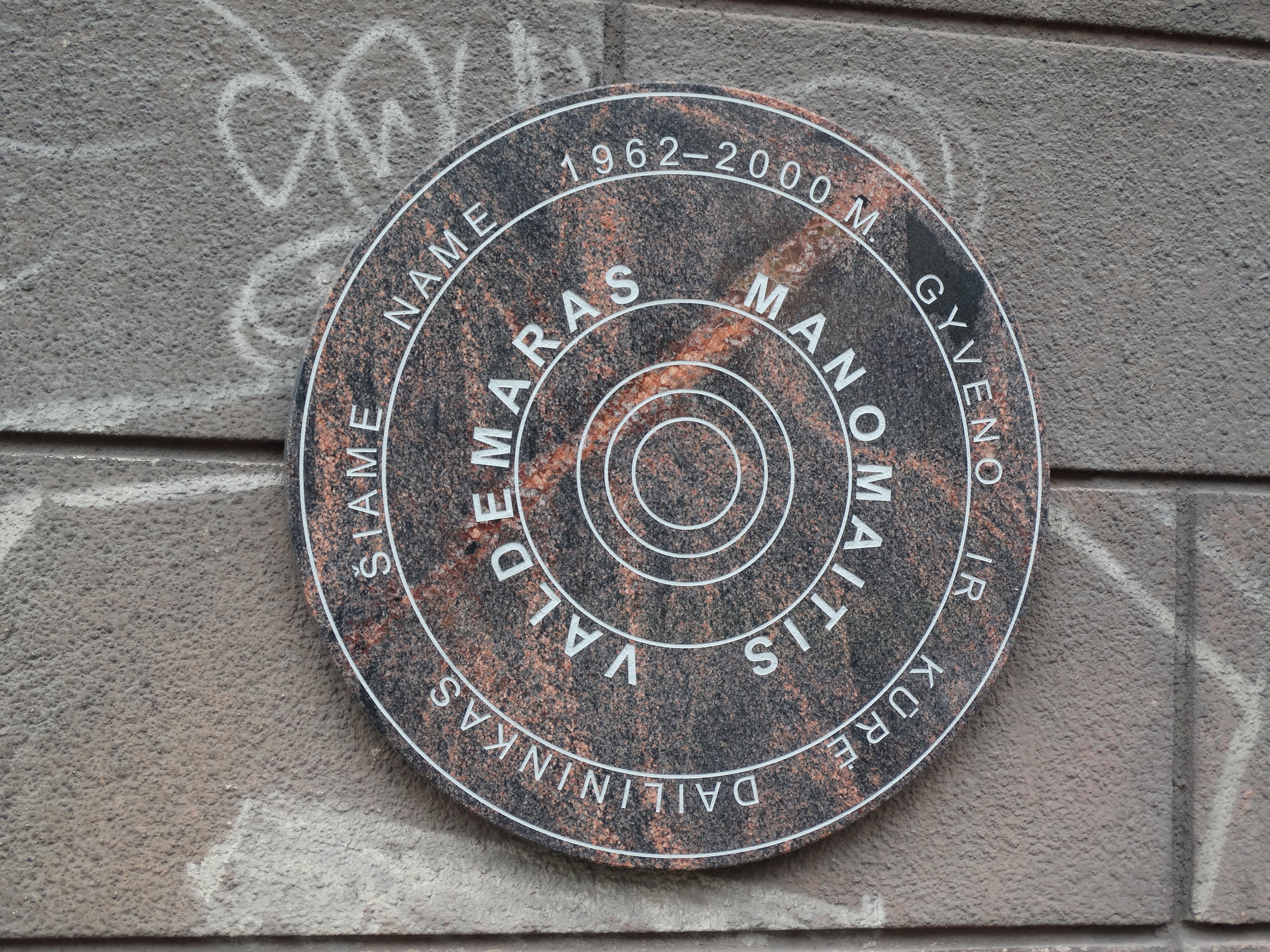 Memorial plaque, Kaunas, Lithuania